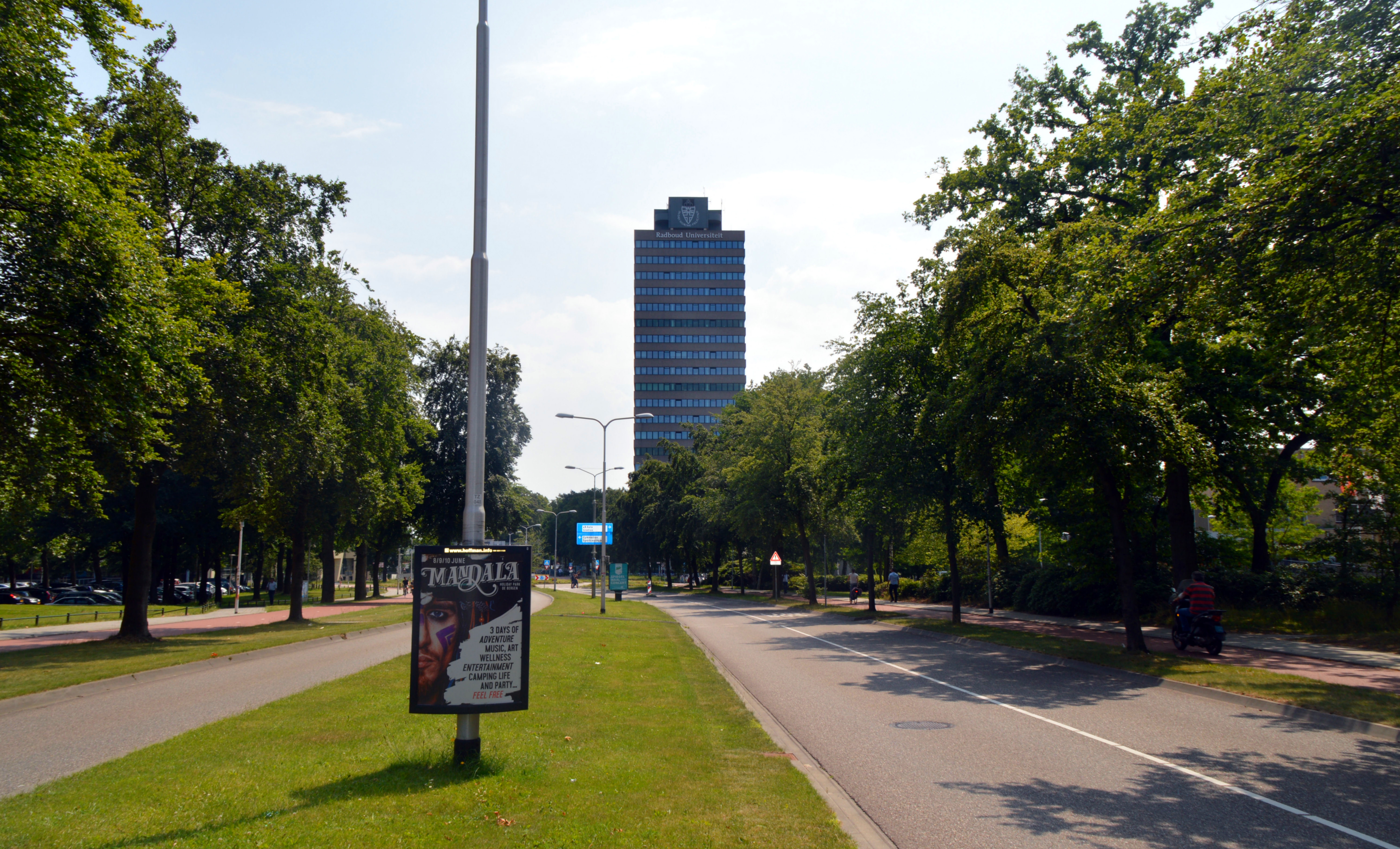 Erasmus building, Radboud University Nijmegen